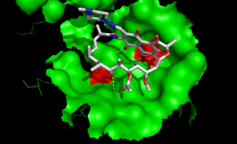 Rifampicin bound to bacterial RNA polymerase. The enzyme surface is shown in green. The two residues which are observed to mutate in resistant strains are shown in red (H406, left, and S411, right)